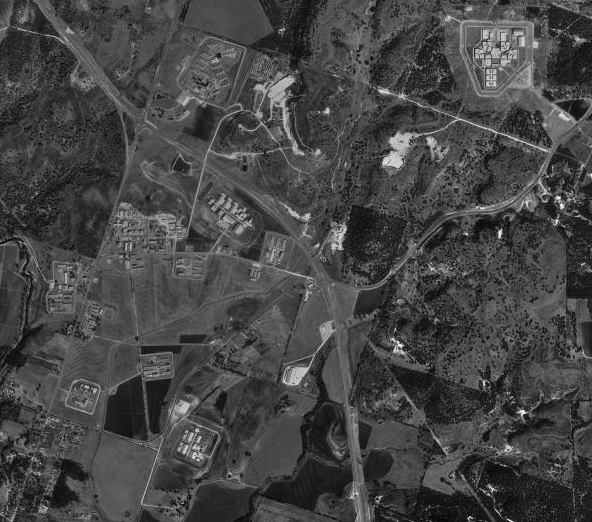 Aerial photograph of the prisons in Gatesville: Christina Crain (Gatesville), Hilltop, Mountain View, Murray, Woodman, and Alfred D. Hughes units